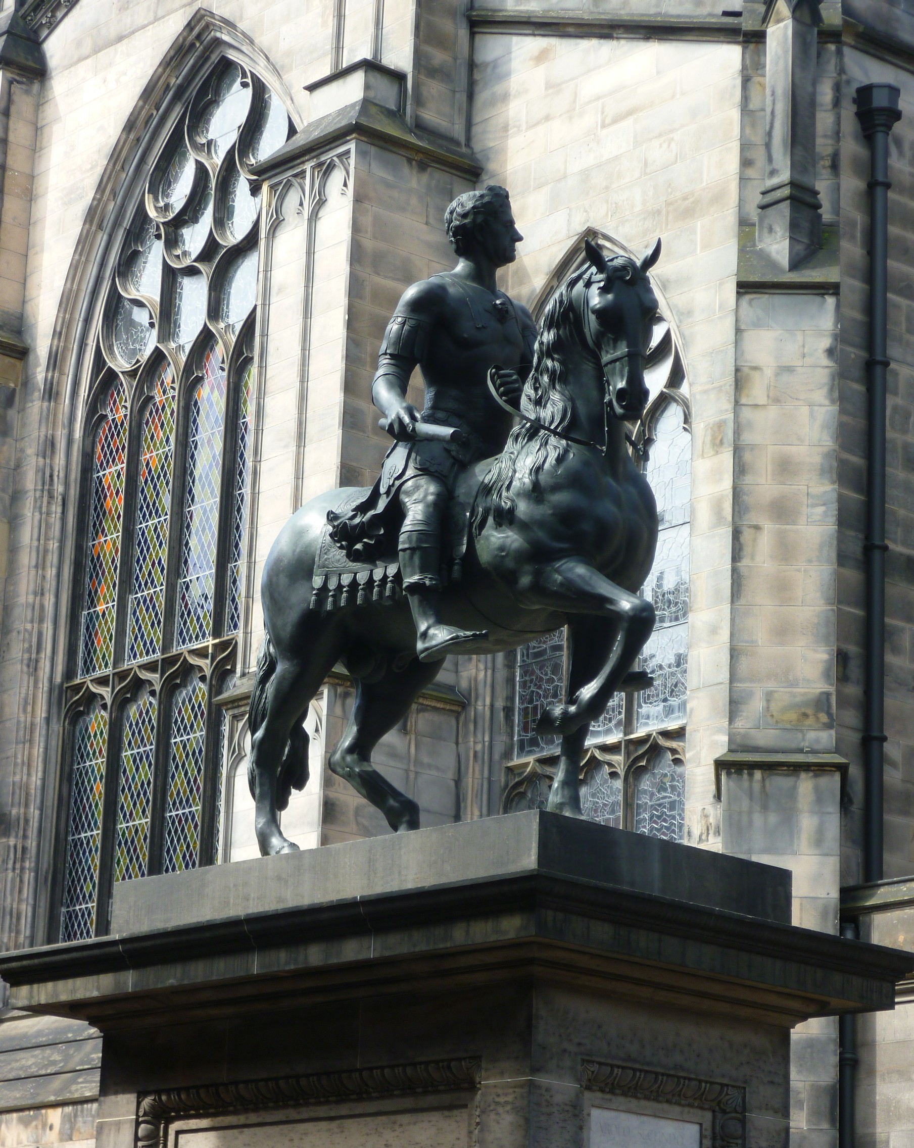 Statue of Charles II as a Roman Caesar, erected on a spot first intended (before the Restoration) for a statue of Oliver Cromwell.